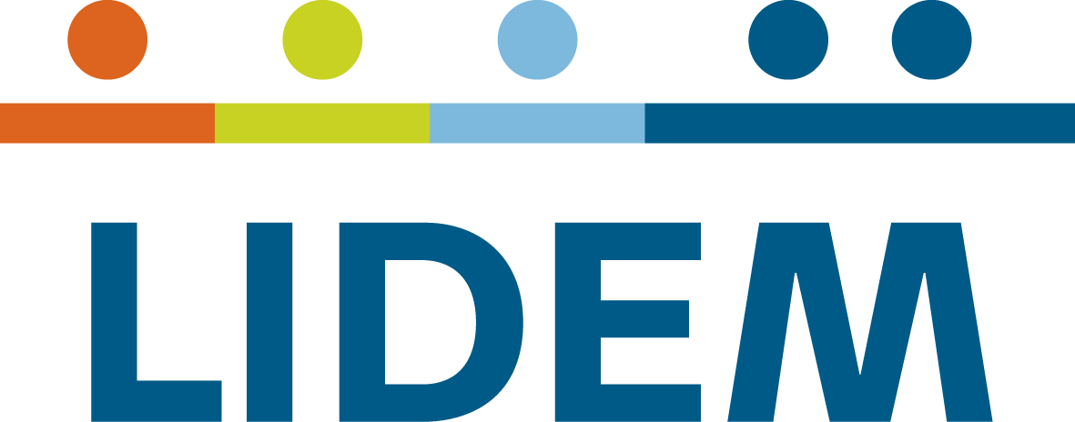 Logo of Czech political party LIDEM.